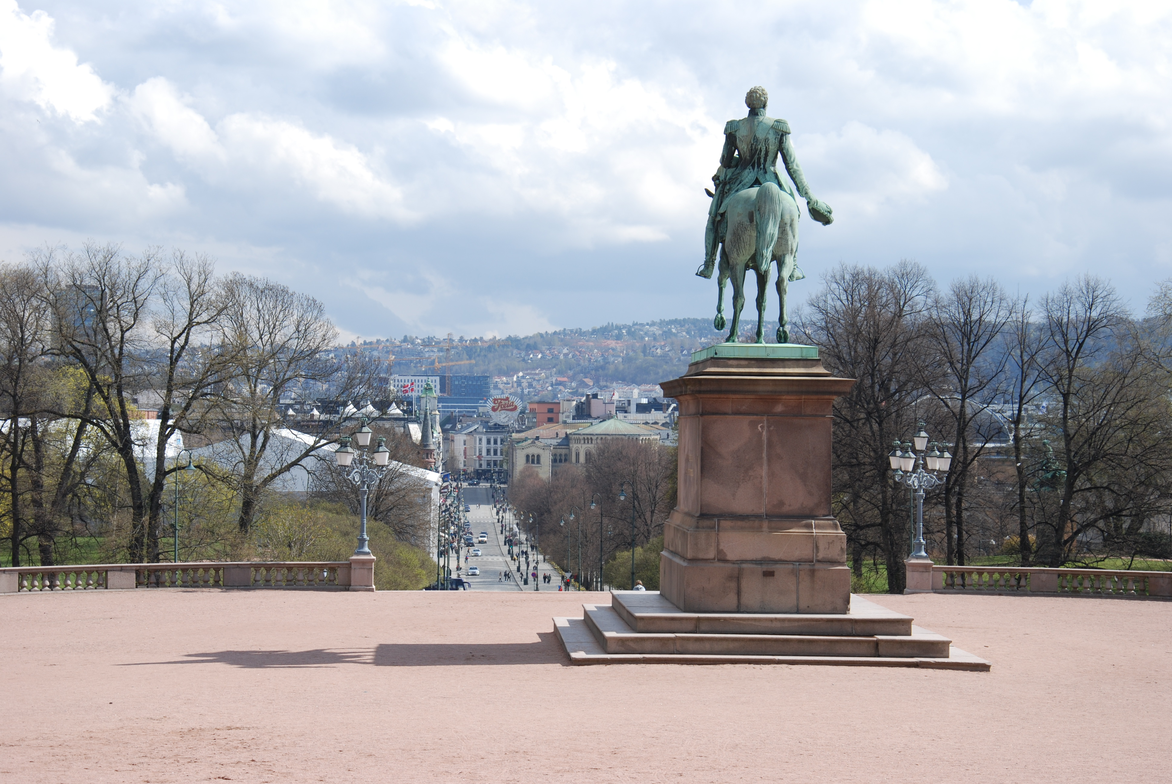 Karl Johans gate i Oslo, från Slottet